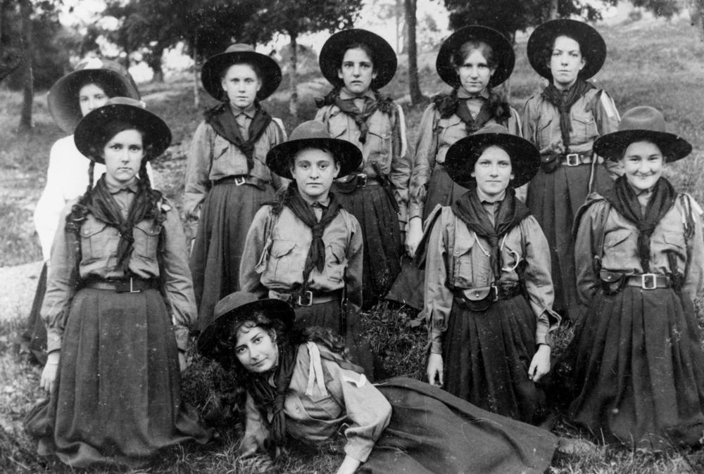 Group portrait of Girl Aids at Rosalie, Brisbane. Group portrait of Girl Aids (later to become the Girl Guides) and their leader, Miss D. Gall, at Rosalie, Brisbane. The girls are in uniform and wear hats, scarves, shirts, belts and skirts. They pose kneeling in two rows on the grass and one girl lies on her elbow at the front .